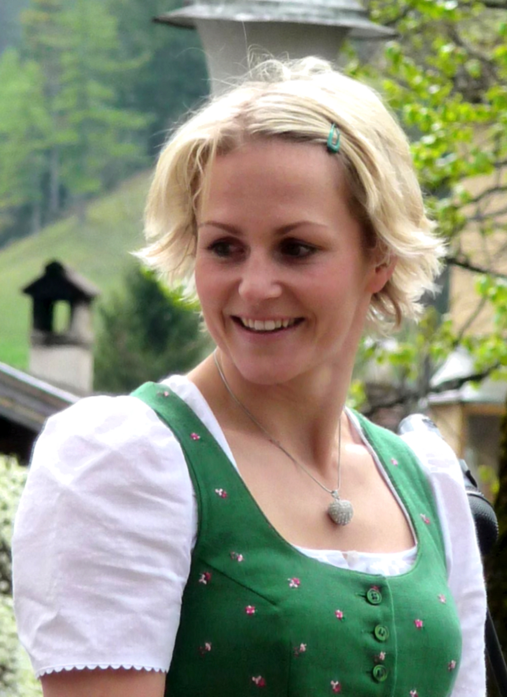 Farewell party for biathlete Martina Beck in Mittenwald, Germany